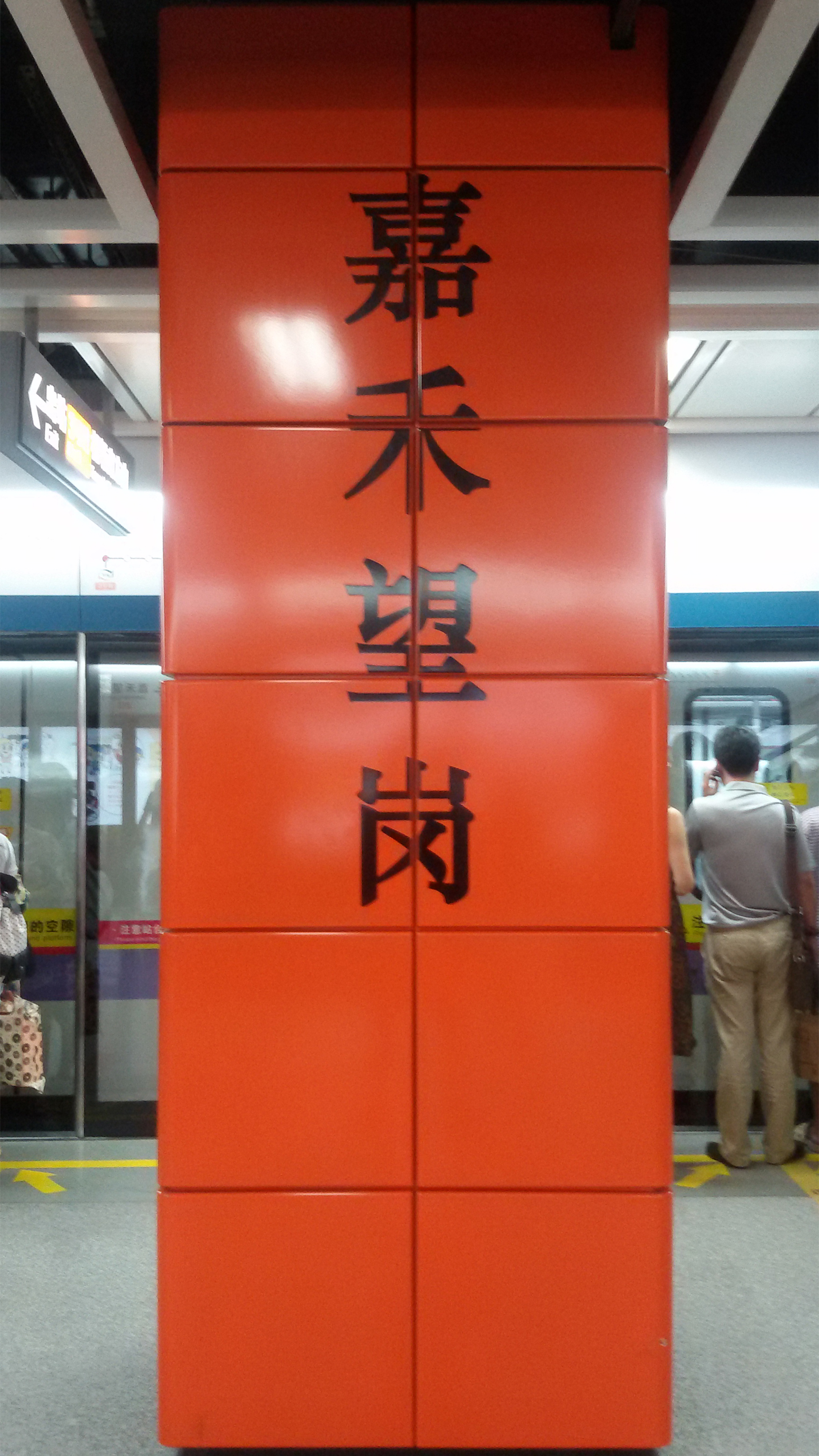 WORD on PILLAR for Jiahe Wanggang Station (Line 2 & Line 3), Guangzhou Metro.